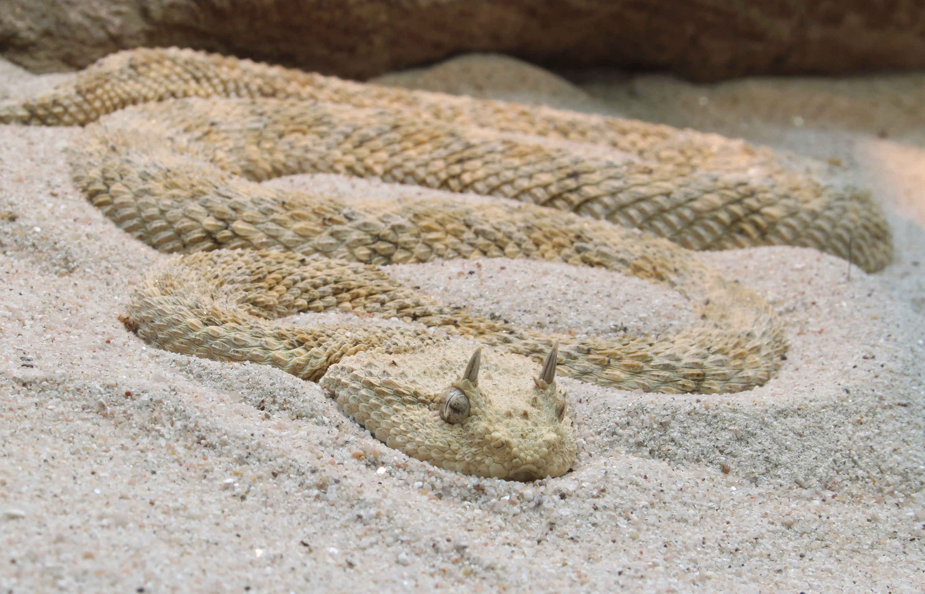 Saharan Horned Viper, Horned Desert Viper Cerastes cerastes, Family: Viperidae, Location: Germany, Stuttgart, Zoological Garden